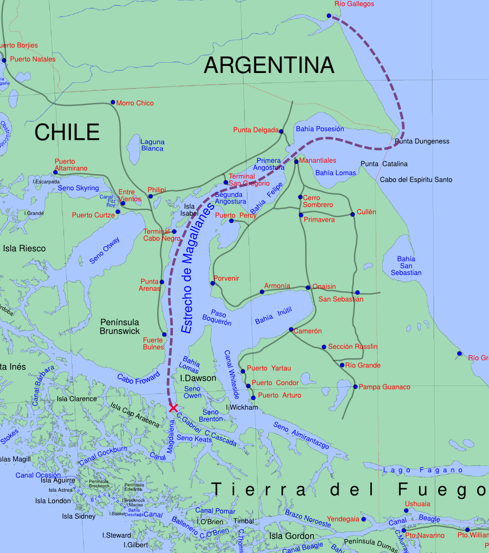 Last route of "ARA Fournier" before sinking 22 september 1949